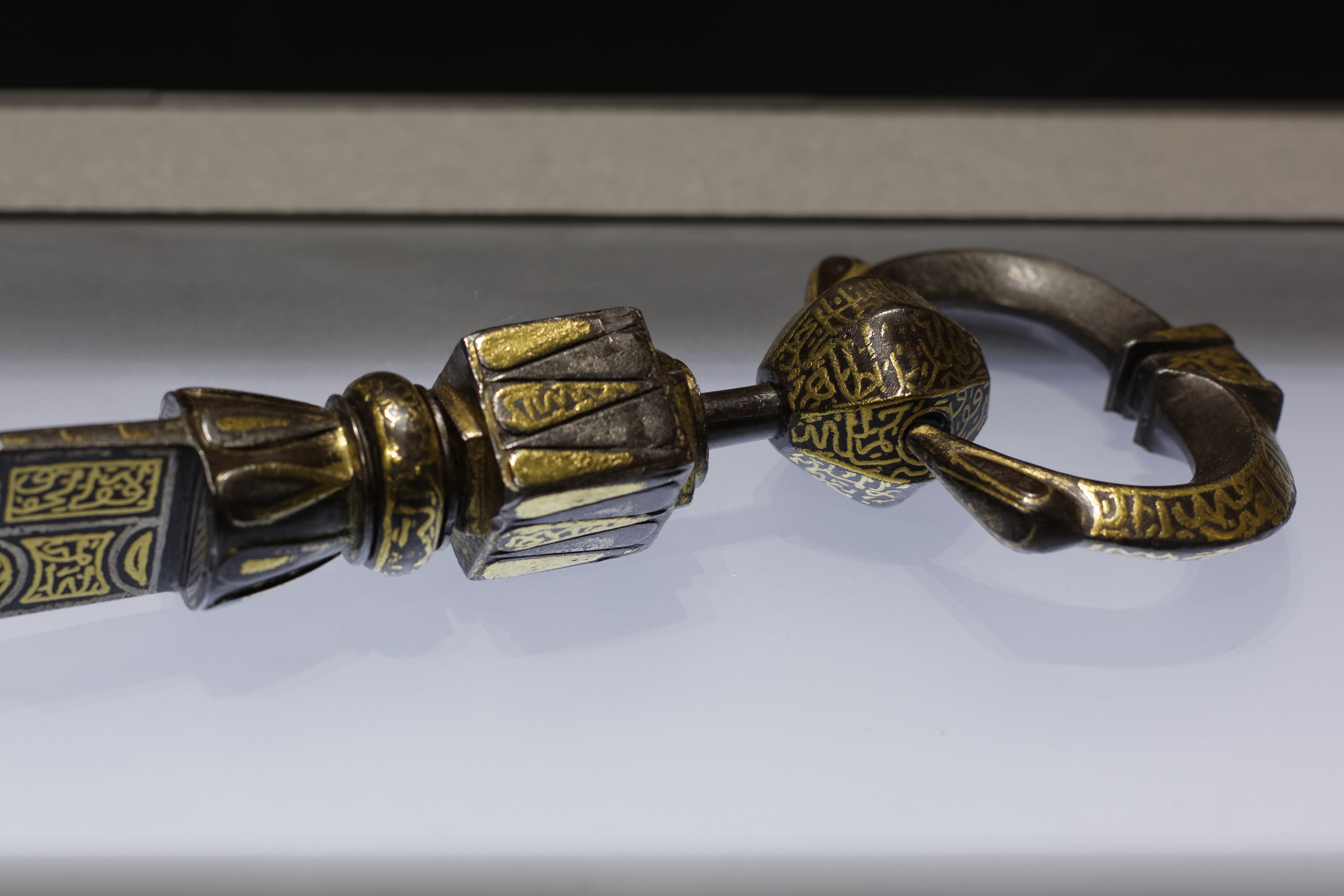 Key bearing the name of Sultan Faraj ibn Barkuk. Iron with gilded and silver inlaid decoration, Egypt, early 15th century.